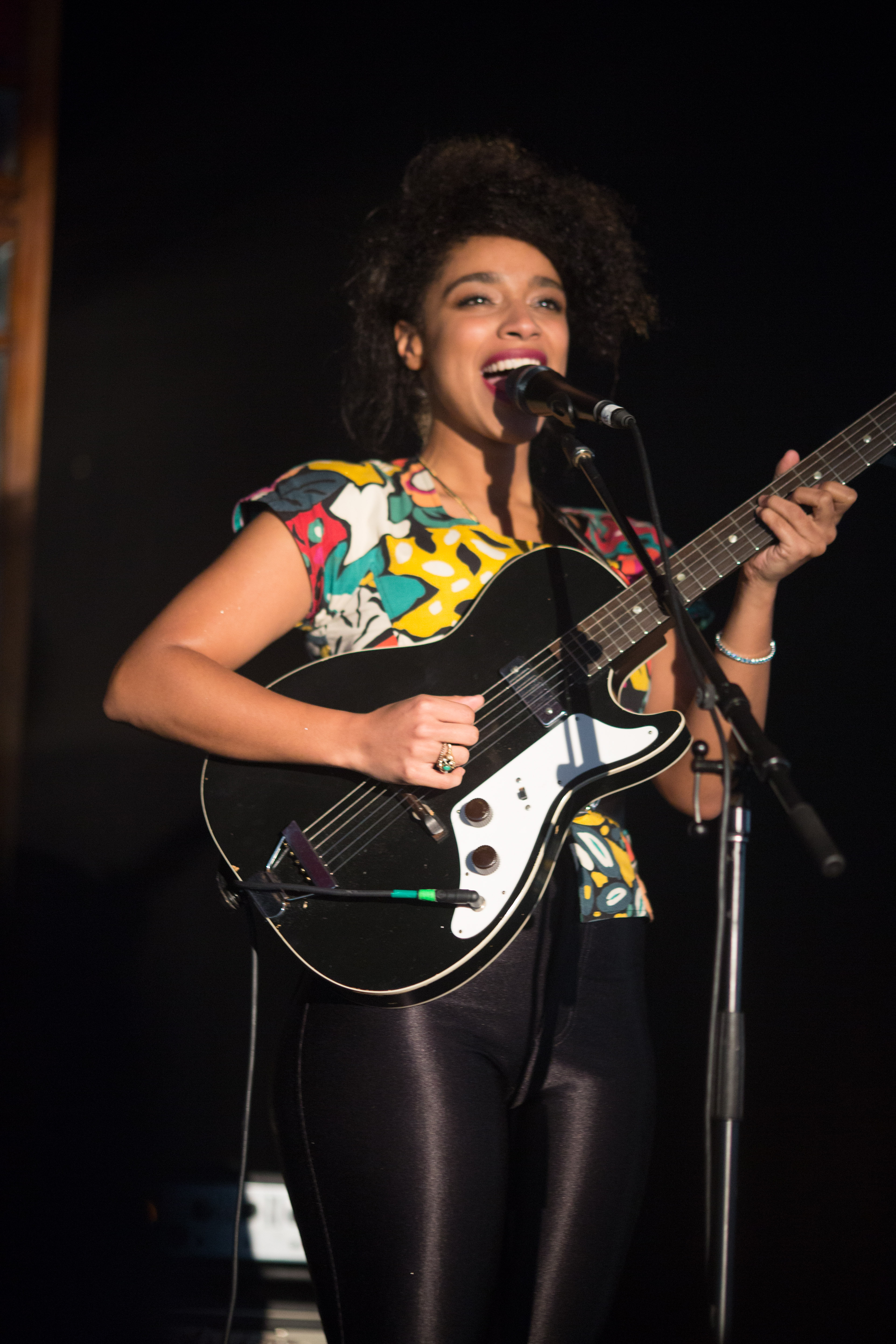 2013 Festival of Sydney, Australia Taken on January 19, 2013